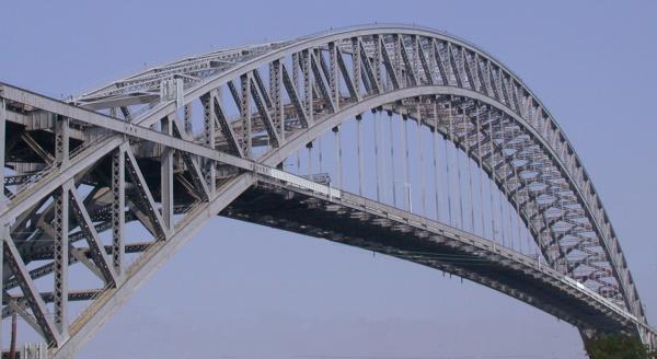 Bayonne Bridge as seen from Port Richmond, Staten Island © 2004 Matthew Trump